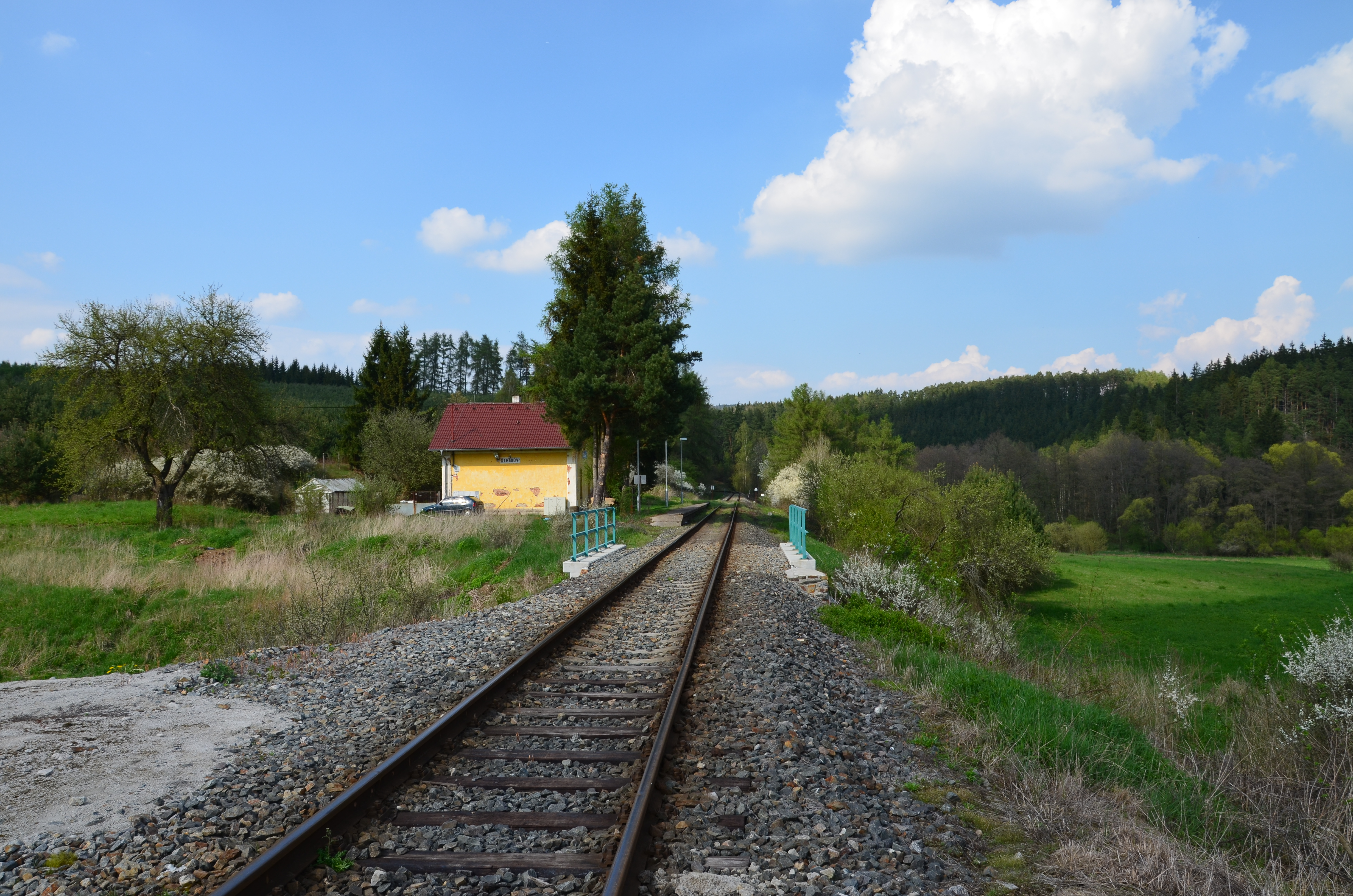 Strahov, Railway line 177 Pňovany-Bezdružice